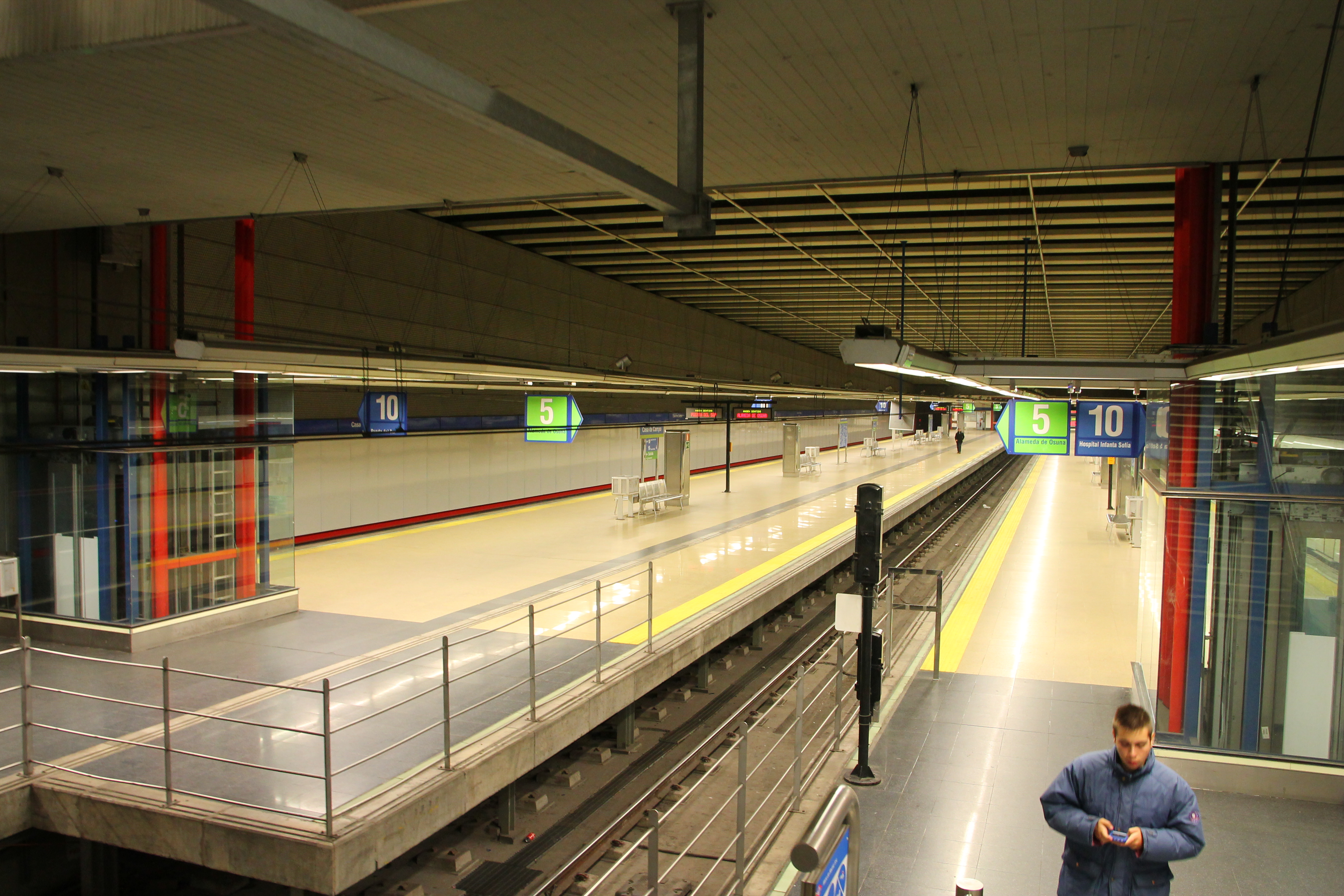 Casa de Campo metro station, Madrid